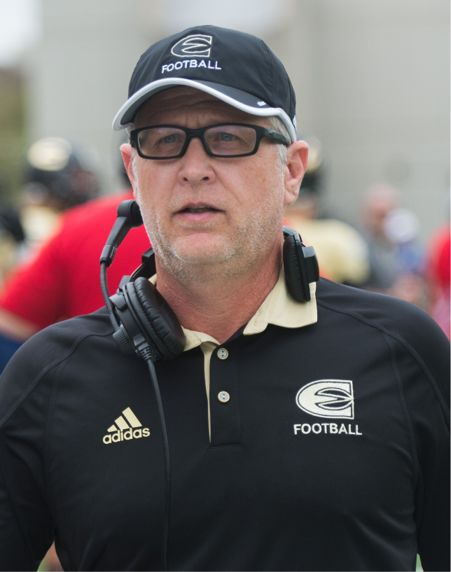 Garin Higgins during a football game in October 2016.